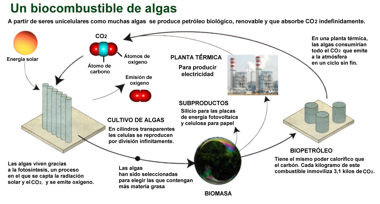 Graphic for the production of a biocarburant to leave of marine algas